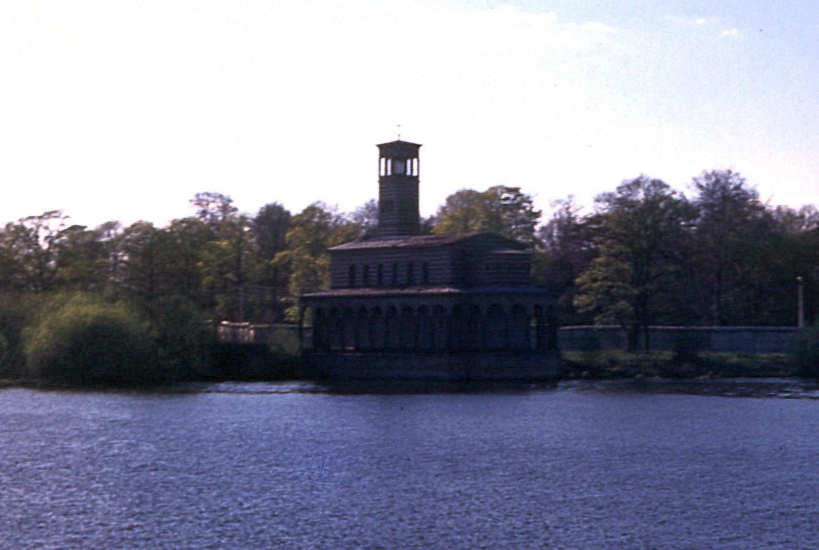 Sacrow church on the bank of river Havel, seen in 1972 from a West Berlin tourist boat, behind it Berlin Wall; light against lens